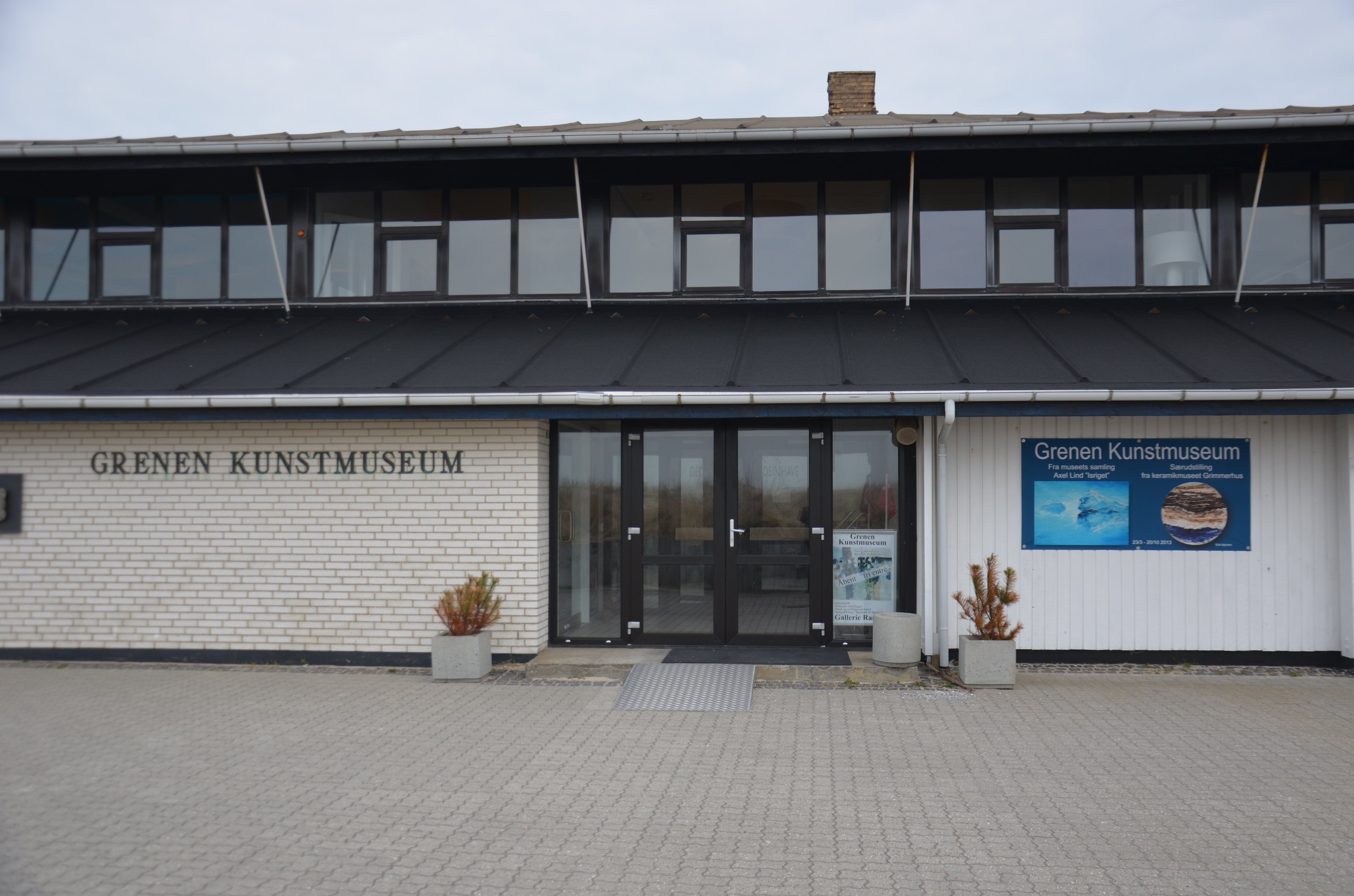 Grenen Kunstmuseum, Skagen, Denmark